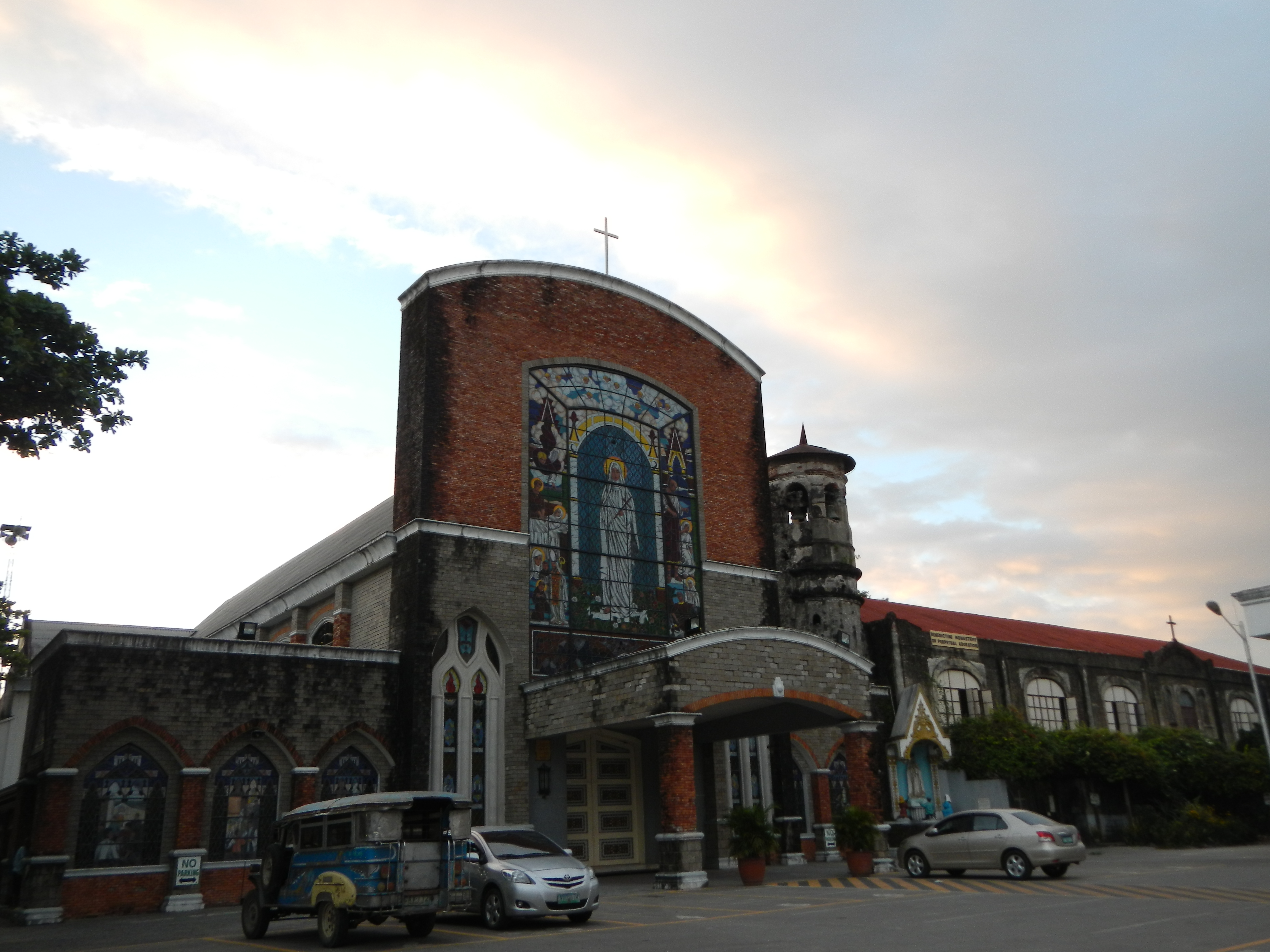 Sta. Monica Parish Church, Parian Mexico, Pampanga [1]